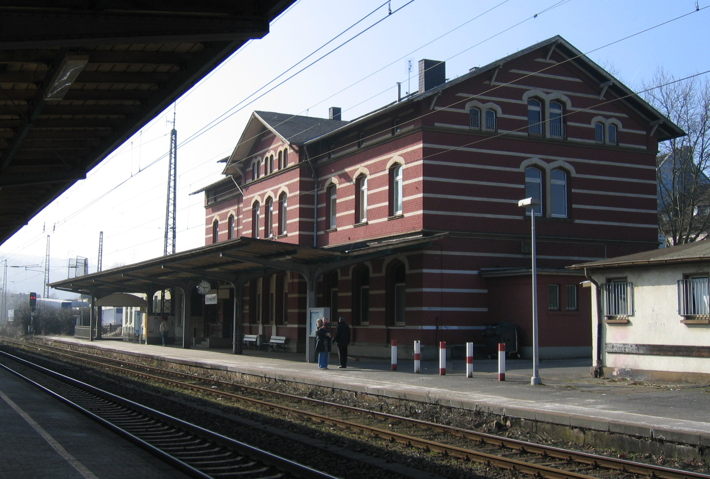 Description: Bahnhof Letmathe in Iserlohn. Source: selbst fotografiert Date: 19. März 2006 Author: Asio otus